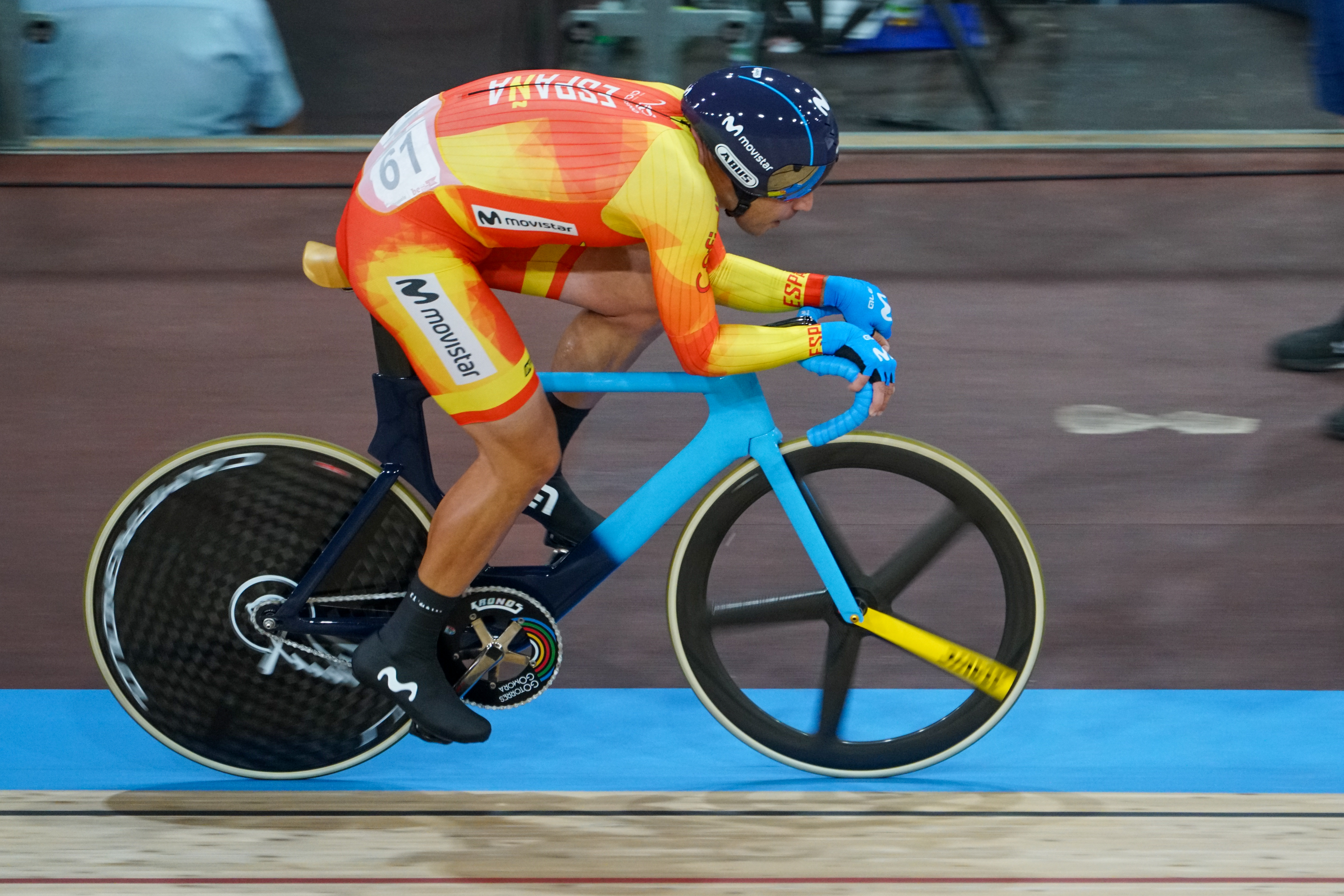 2020 UCI Track Cycling World Championships – Men's Points Race